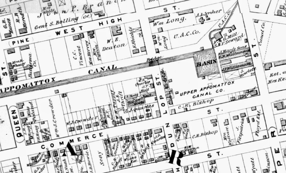 Upper Appomattox Canal and turning basin with mills downstream.